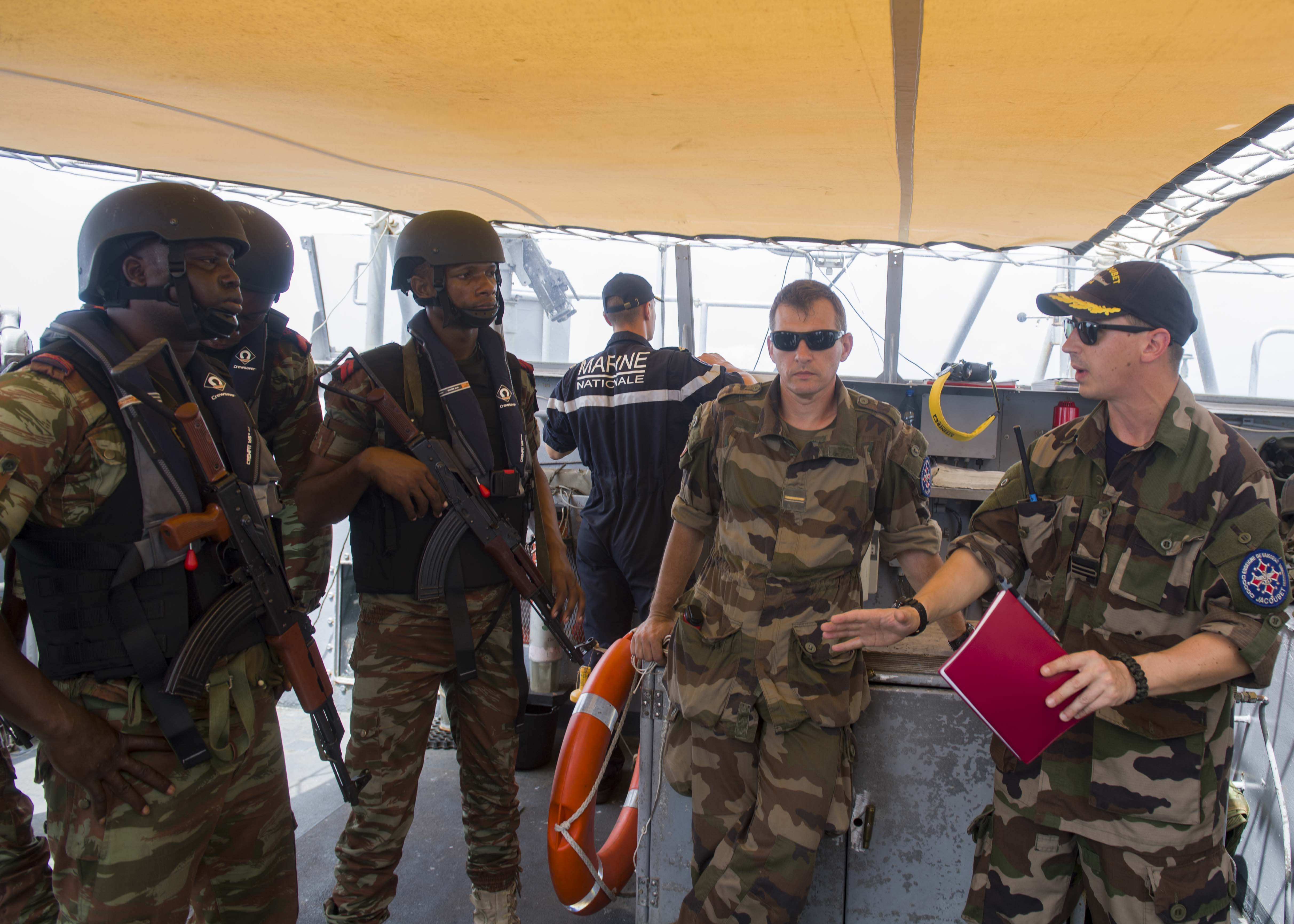 170326-N-GP524-518 COTONOU, Benin (March 26, 2017) Lt. Geam Philippe, right, of the French navy, debriefs Benin sailors after a visit, board, search and seizure drill aboard the French frigate E.V. Jacoubet (F 794) during exercise Obangame Express 2017. Obangame Express, sponsored by U.S. Africa Command, is designed to improve regional cooperation, maritime domain awareness, information-sharing practices, and tactical interdiction expertise to enhance the collective capabilities of Gulf of Guinea and West African nations to counter sea-based illicit activity. (U.S. Navy photo by Mass Communication Specialist 2nd Class Bill Dodge/Released)